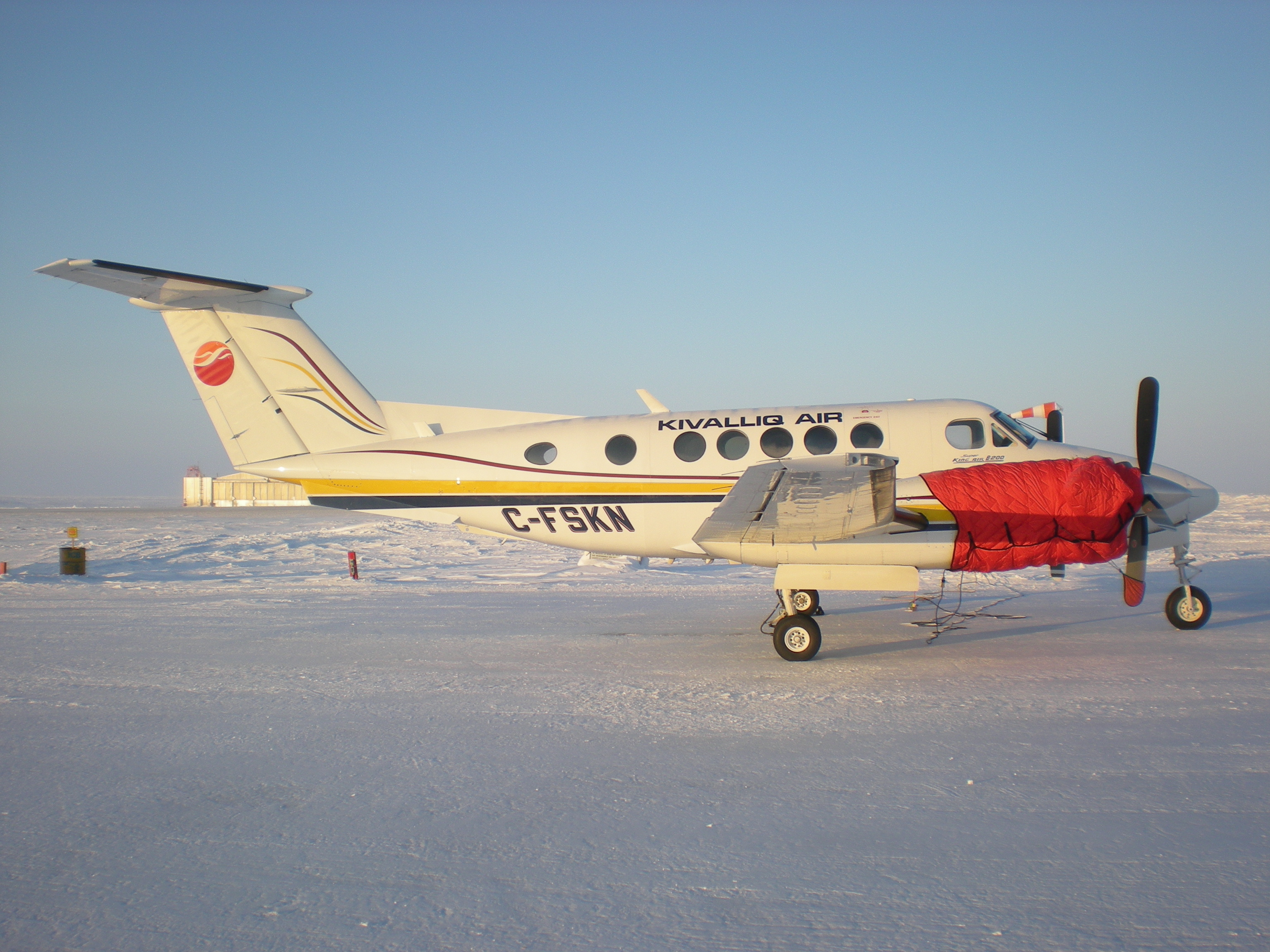 C-FSKN Kivalliq Air Beech 200